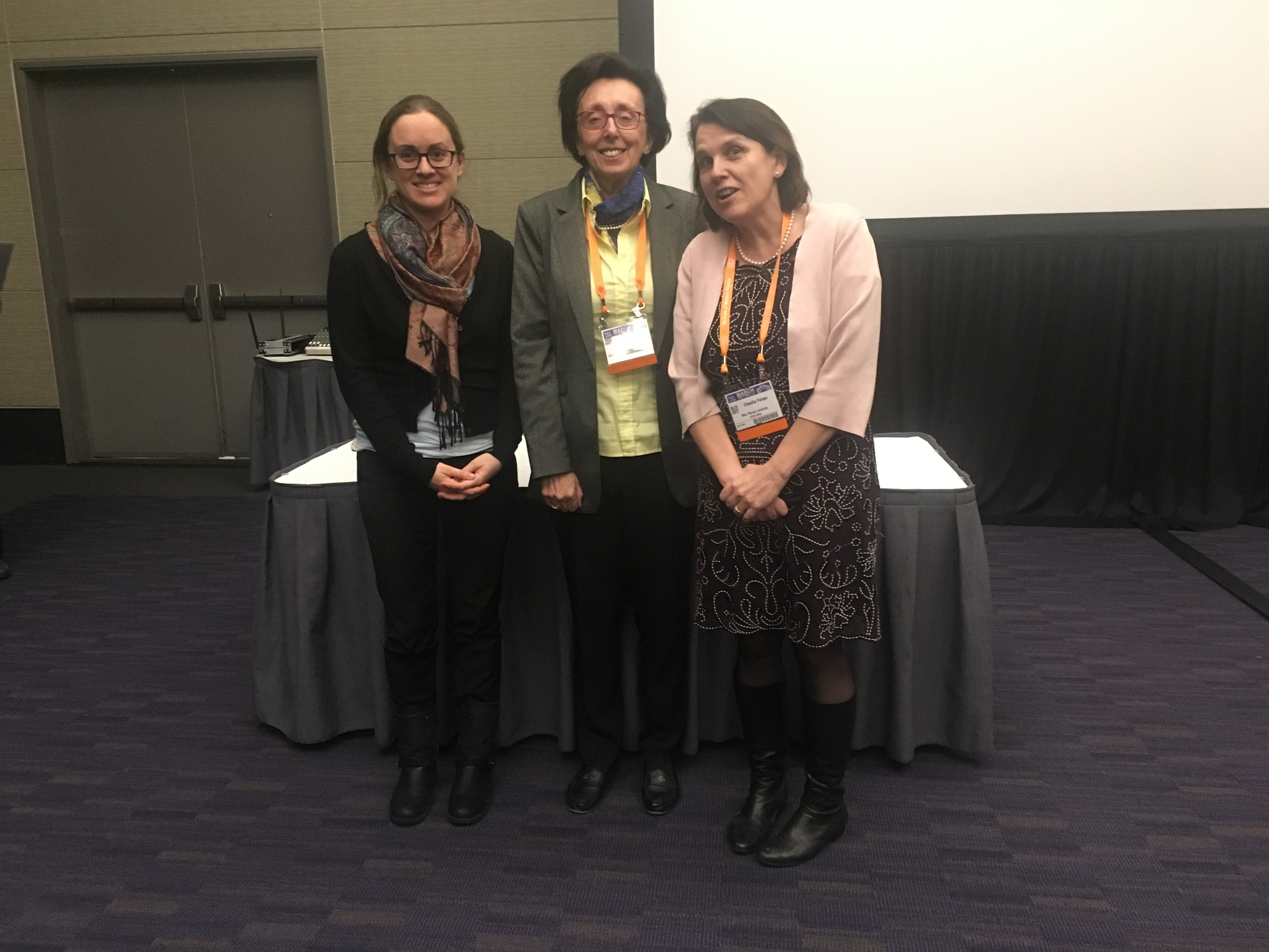 Photo of Julia Mundy, Giulia Galli and Claudia Felser, winners of the the 2019 APS DMP Awards. Taken after the awards talk session at the 2019 APS meeting in Boston